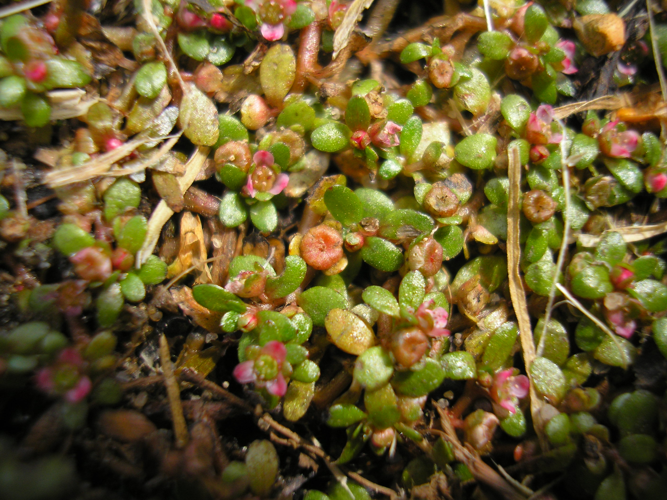 Elatine hexandra